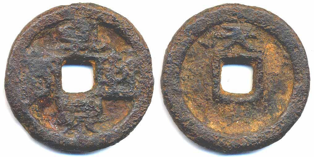 FIVE DYNASTIES / TEN KINGDOMS 907 - 960 AD H 15 . 5b Han Yuan tong bao Later Han Dynasty, Emp. Gao Zu, 947-48 Han: short left foot, Bao: closed bei HG-nl AF H 15 . 5c Han Yuan tong bao Later Han Dynasty, Emp. Gao Zu, 947-48 Han: Raised off center line, Long left foot, Bao: closed bei HG-nl VF H 15 . 11 Han Yuan tong bao Later Han Dynasty, Emp. Gao Zu, 947-48 Obv: Dot below tong S411a, H331/3 crusty, but sharp EF H 15 . 31 Tong Zheng yuan bao Former Shu Kingdom: Wang Jian, 9-7-18 FFD771, S429, HG336/2 F H 15 . 42 Qian De yuan bao Former shu Kingdom: Wang Yan 919-25 FFD775, S433, H340/1 F H 15 . 53 Kai Yuan tong bao Kingdom of Min: Wang Shenzhi, 909-942 Lead, Rev: Fu above, sun below 23.4 mm, 4.329 g AF H 15 . 57 Yong Long tong bao Kingdom of Min: Wang Yanxi Rev: Min above, crescent, dot. Large 40mm iron coin. FD782, HG347/2 F/G H 15 . 62 Qian Feng quan bao Kingdom of Chu: Ma Yin, 907-51 Rev: Tian abv. IRON 40mm FD796, S448, HG354/1 Vg H 15 . 75 Guang Zheng tong bao Later Shu Kingdom: Meng Chang, 23.0 mm, 3.554 g FD803 HG360/3 Vg H 15 . 91 Tang Guo tong bao Southern Tang Kingdom: Emp. Yuan Zu, 943-61 Rev: Crescent above, 19.5 mm, 1.734 g S444v, HG372/1 VF-EF, a bit crusty H 15 . 97 Da Tong tong bao Southern Tang Kingdom: Emp. Yuan Zu, 943-61 Rev: crescent abv. HG376/1 clear but dark VG H 15 . 112a Qian Heng tong bao Southern Han Kingdom: Emp. Lie Zu, 917-42 Rev: yong (narrow) H396/1v crude F-VF, samples shown H 15 . 112b Qian Heng tong bao Southern Han Kingdom: Emp. Lie Zu, 917-42 Rev: yong (wide) Larger, better-made coin that the narrow yong variety. FD887, S436m, H396/2 crude F-VF, samples shown H 15 . 129 Kai Yuan tong bao "Great Yue / Han" Dynasty, Small lead coin, Rev: si (4) above & below 19 mm, 2.683 g weak F .